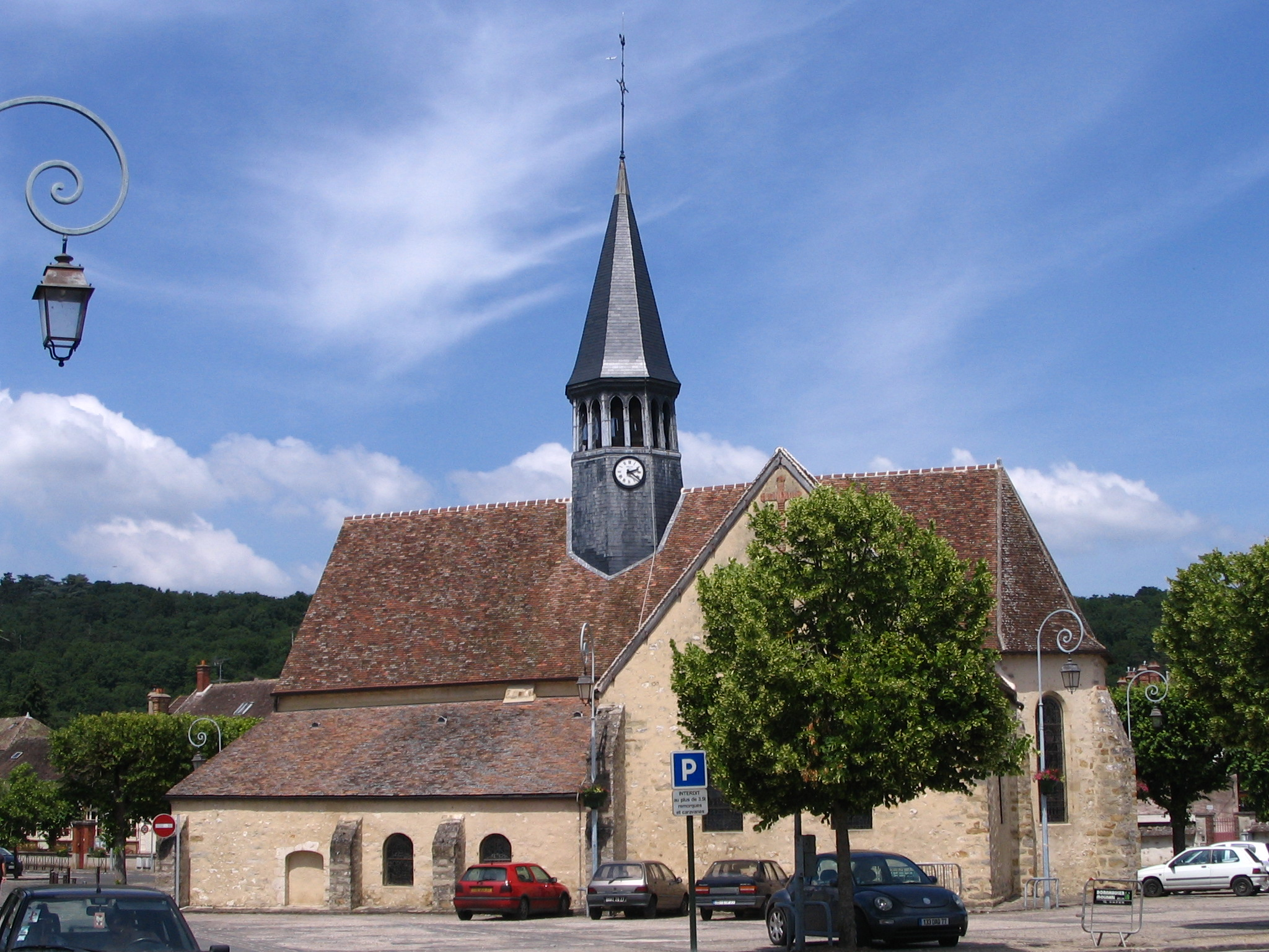 St.Amandus' church, in Thomery, Seine-et-Marne, France.